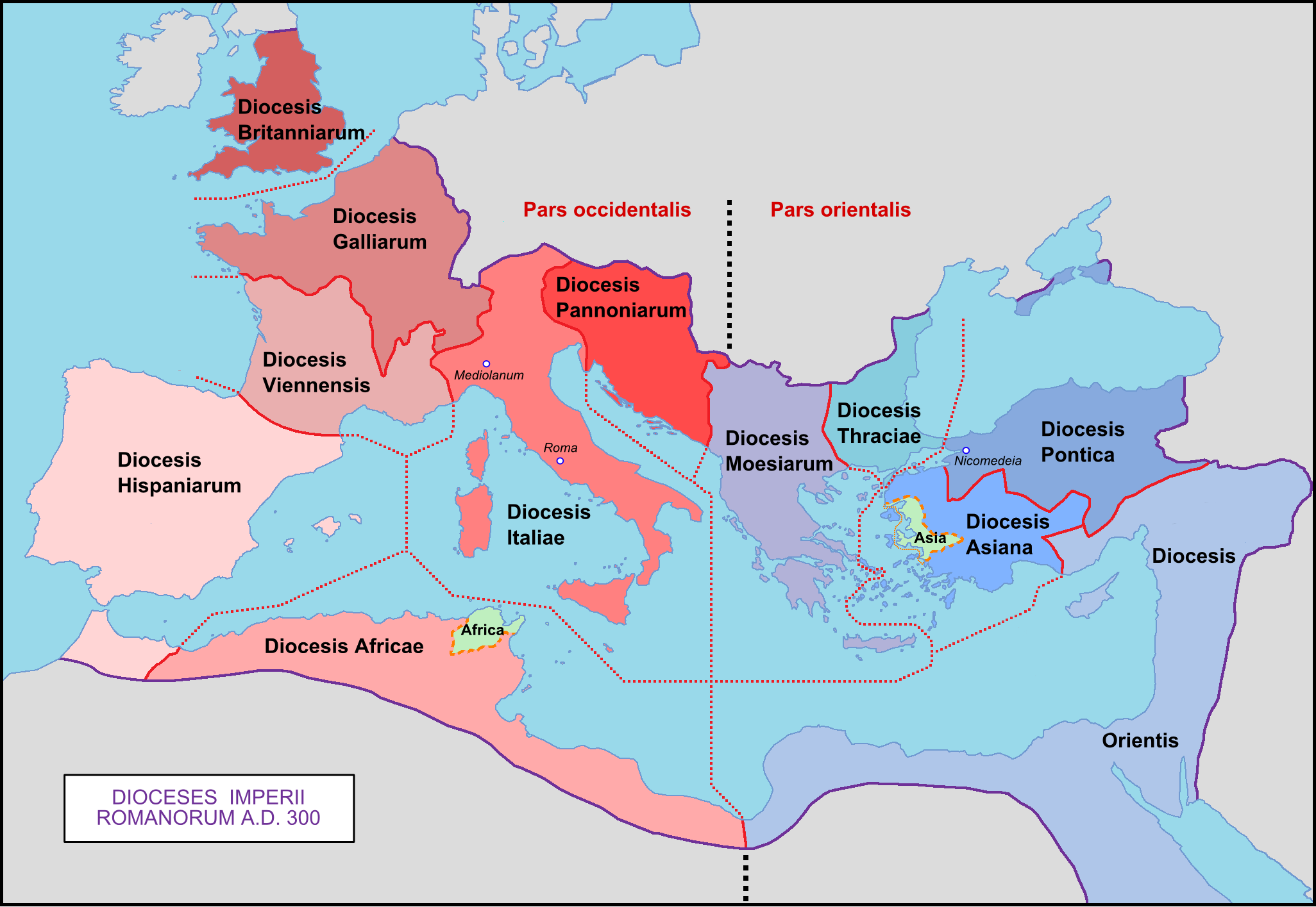 Map of the Roman Empire with dioceses created by Diocletien.